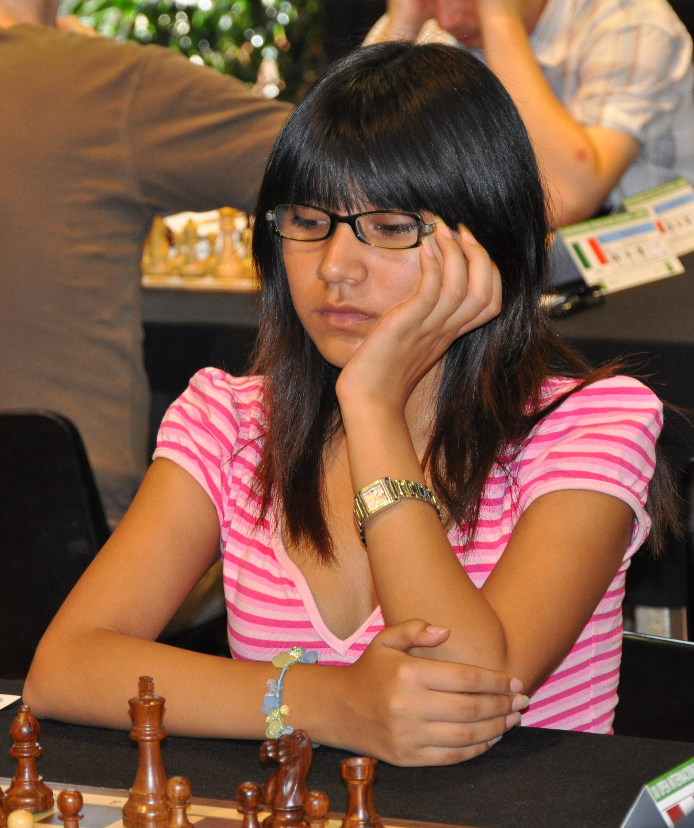 WGM Deysi Cori (Peru), XII Open Internacional de Sants, Hostafrancs i la Bordeta Grup A, Barcelona 2010